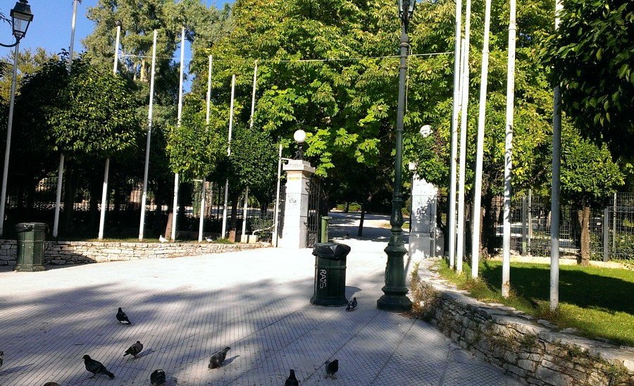 alsos kifisias